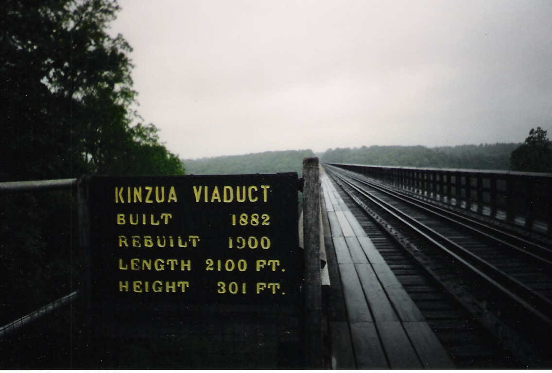 Kinzua Bridge, prior to its destruction by a tornado. Kinzua Bridge State Park, McKean County, Pennsylvania